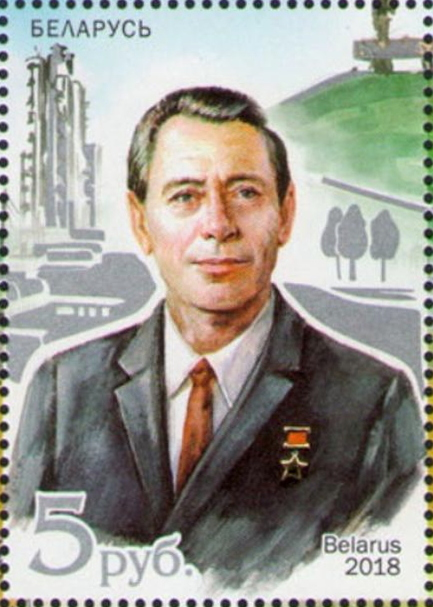 100th Birth Anniversary of Piotr Masherov.